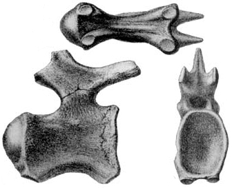 Titanosaurus indicus holotypic distal caudal vertebra.